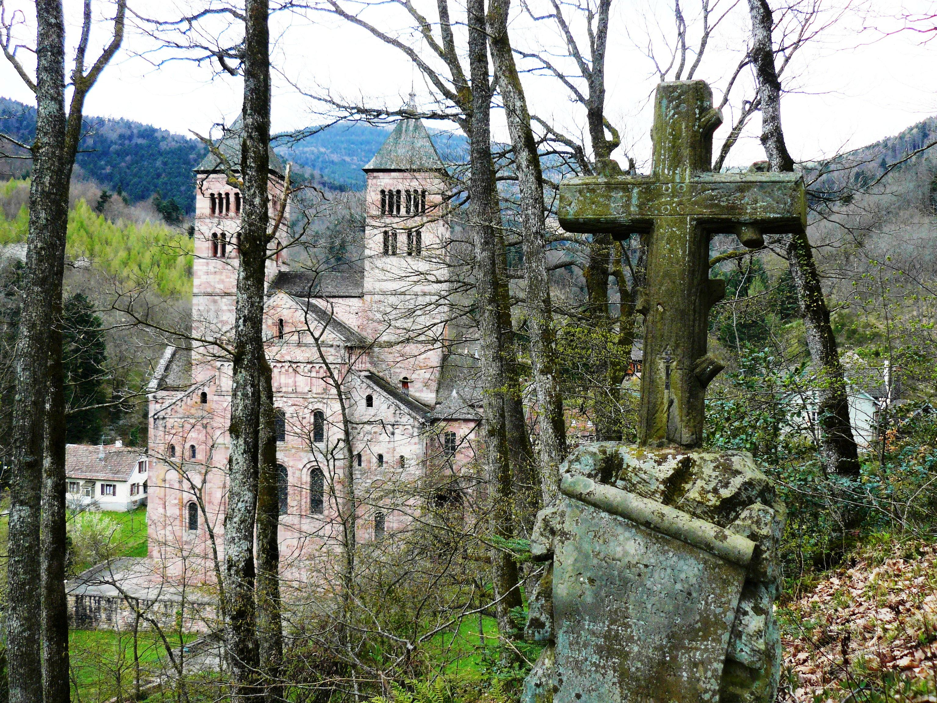 Abbaye de Murbach. Chemin de Croix, IXe station.